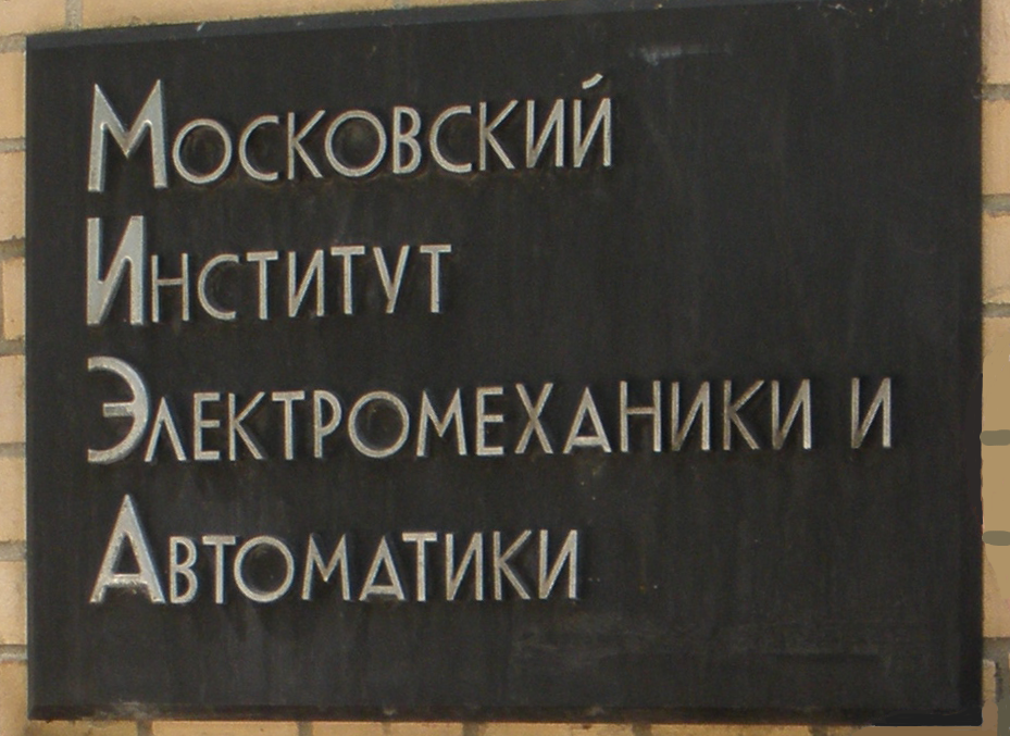 Plate with name of «Moscow institute of electromechanics and automatics»